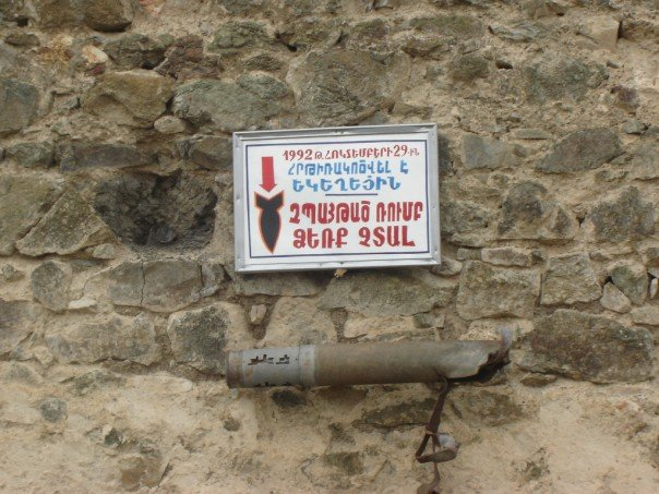 Unexploded missile fired at the Gandzasar monastery by an Azerbaijani MiG-21 during the Nagorno-Karabakh War, which landed in the room of the priest but failed to explode.